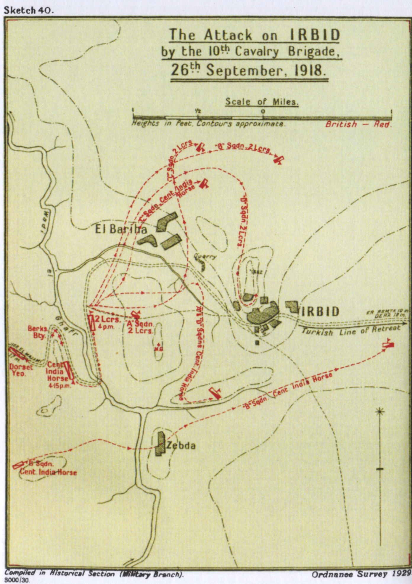 Map shows attack on Irbid 26 September 1918 Other information Crown copyright access unrestricted